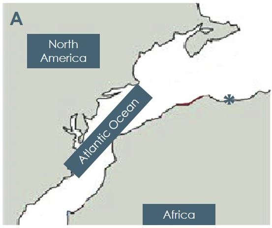 In Figure A, initial rifting of the Africa and North America resulted in the creation of a narrow seaway. (Adapted from Labails, et al, 2013)